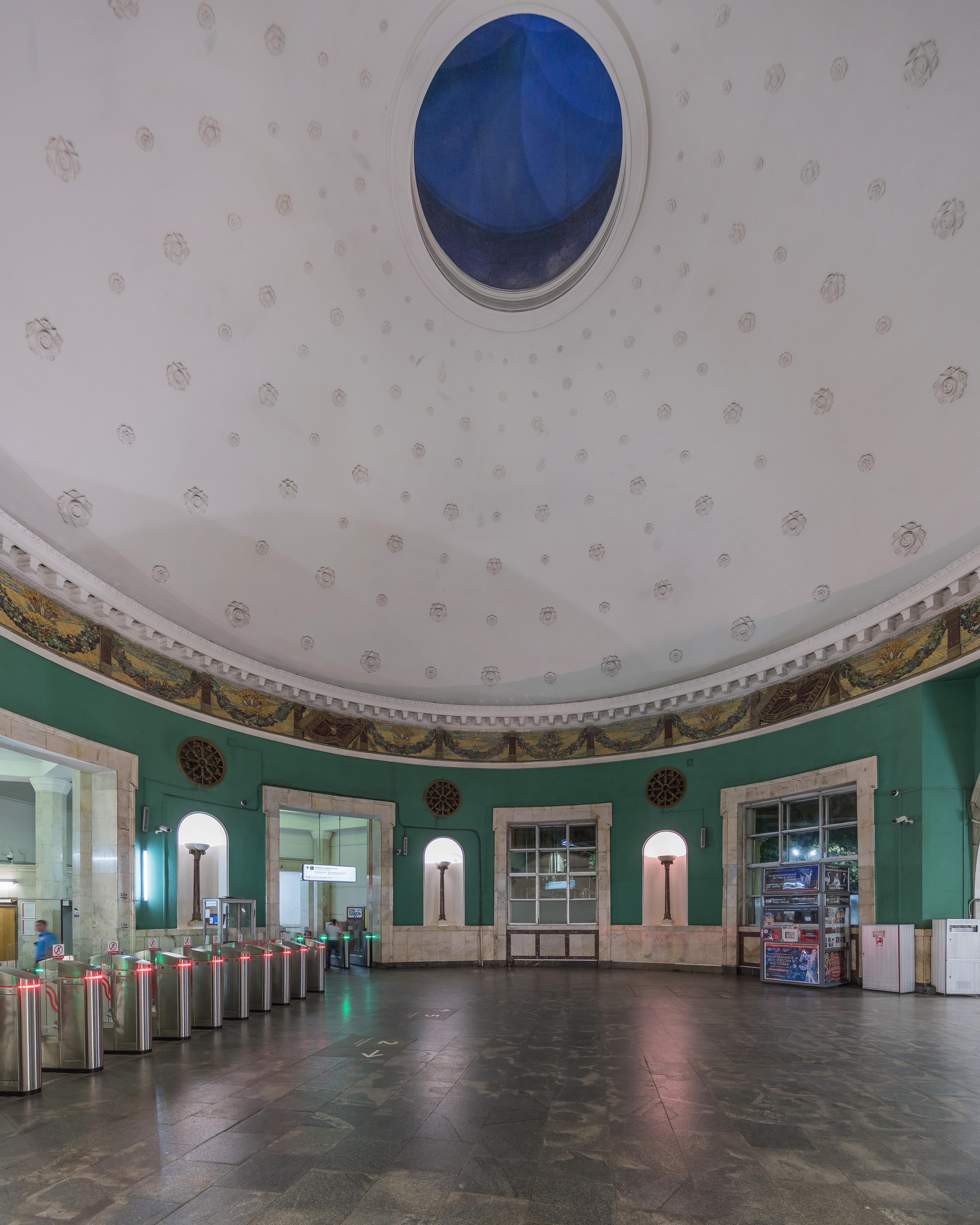 Interior of entrance pavilion of Paveletskaya (KL+ZL) metro station in Moscow, Russia